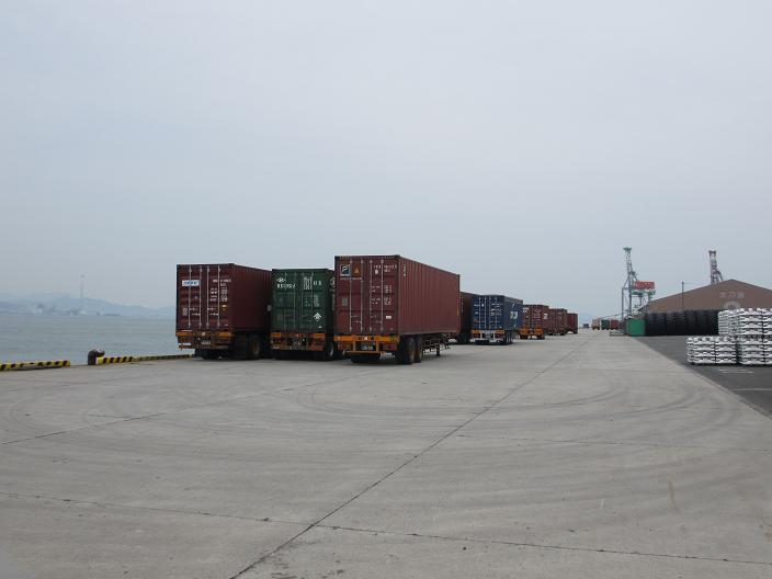 The area of Tachinoura CY.